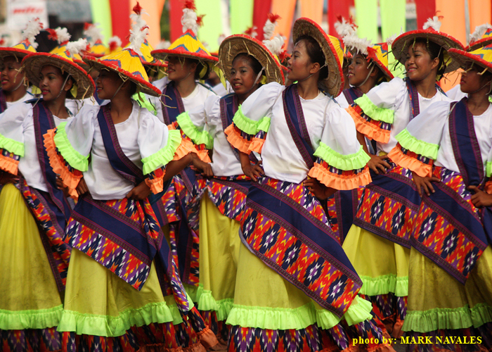 Colorful street dancing competition on 9th T' NALAK Festival in Koronadal, South Cotabato